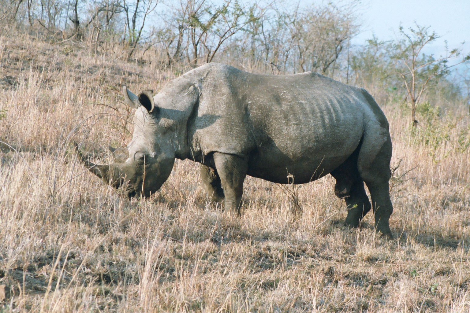 Male White Rhinocero (Ceratotherium simum) in South-Africa.